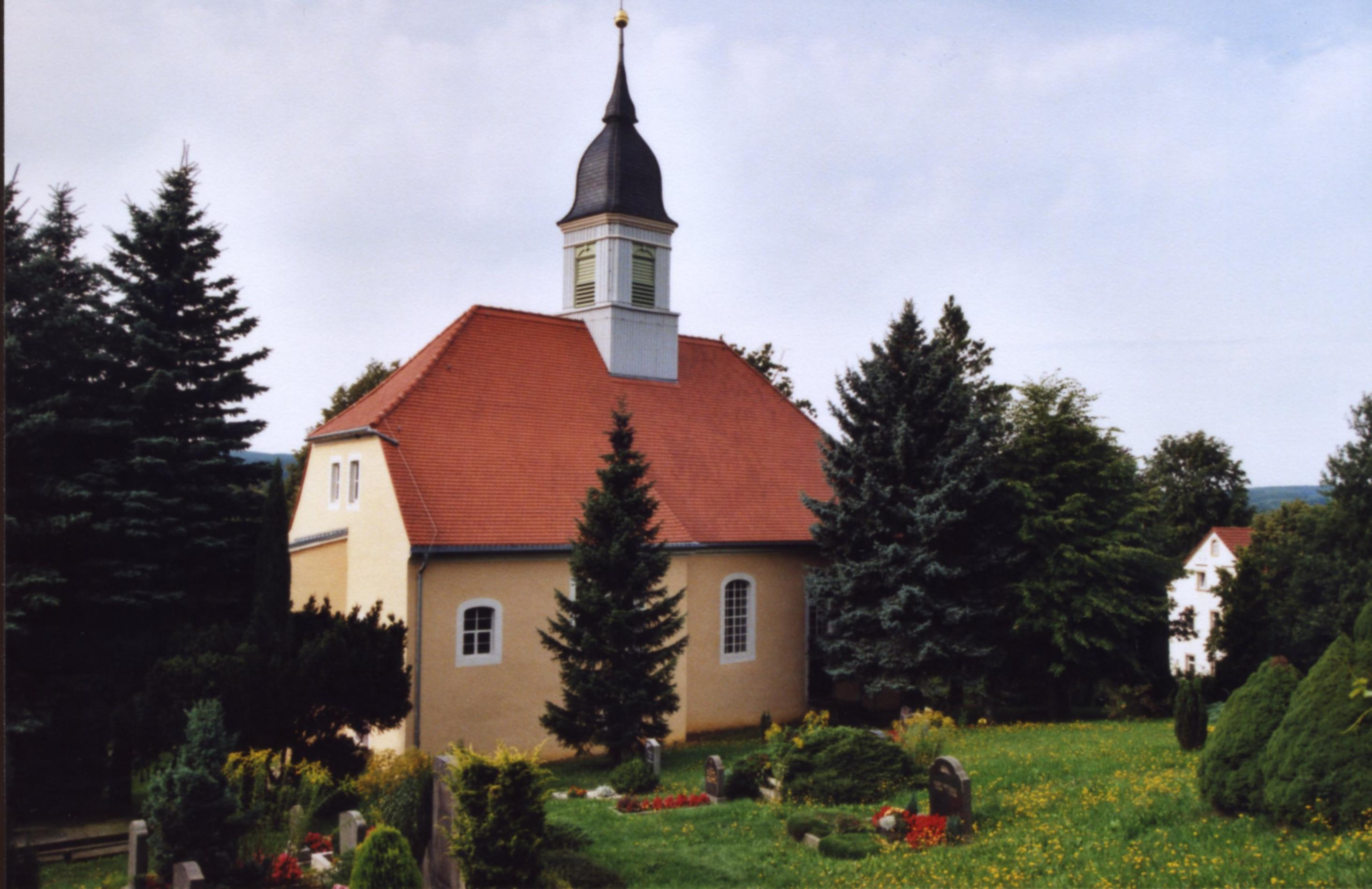 This image shows the church of Langenhennersdorf in Saxony, Germany.